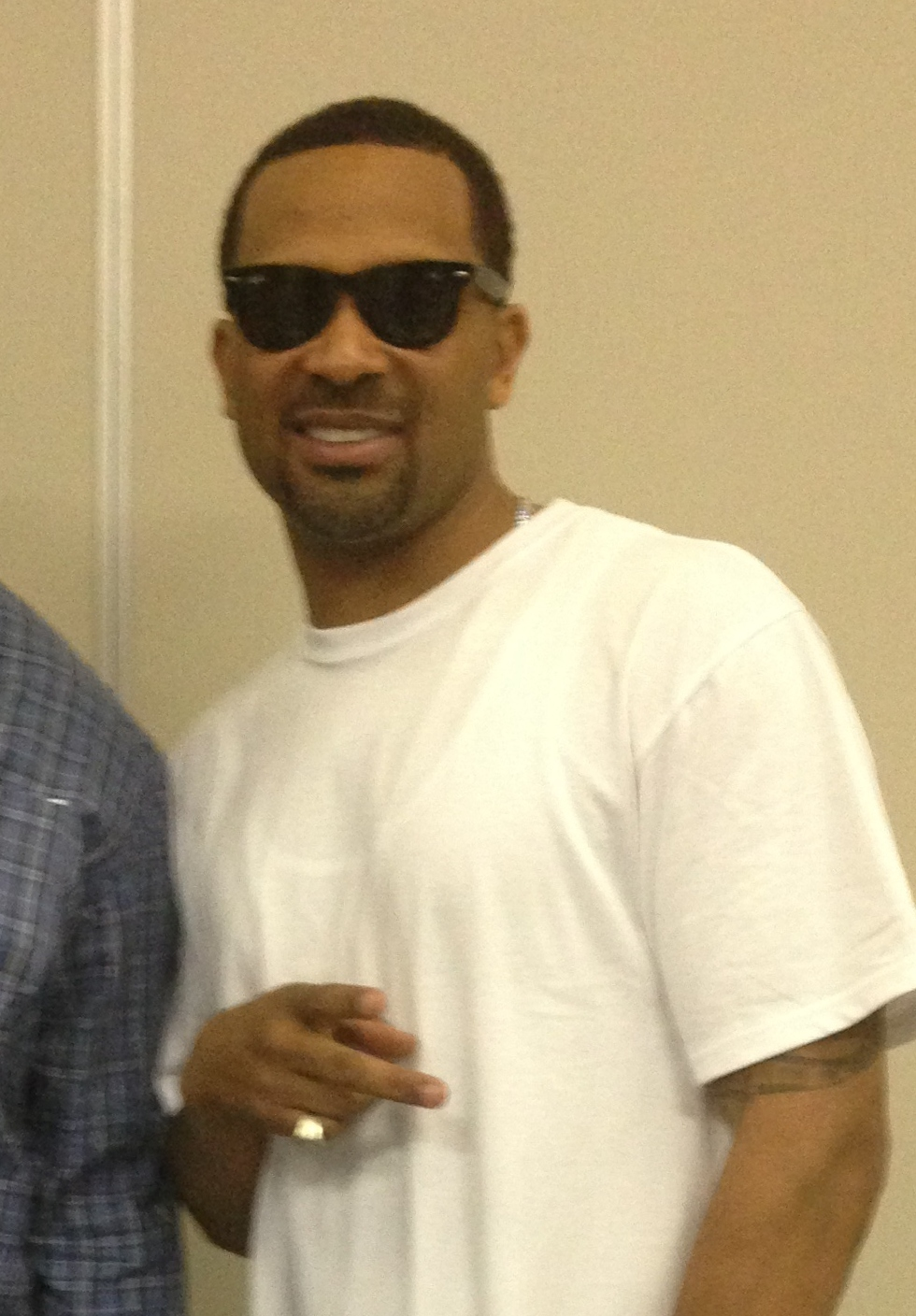 Mike Epps in Houston February 1, 2013